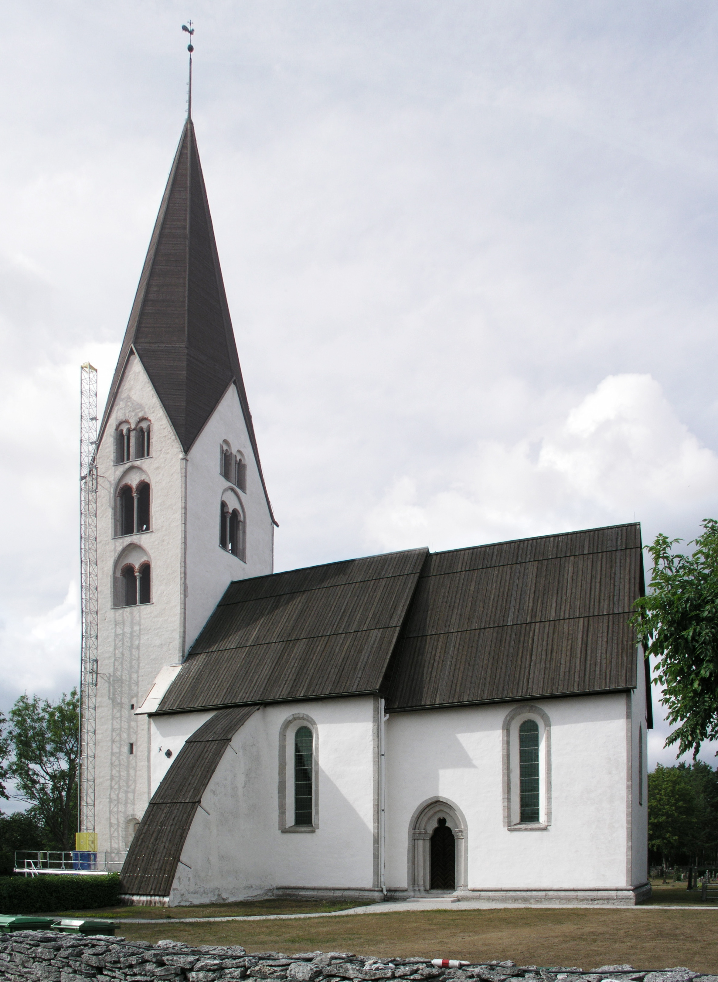 Othem kyrka / Othem church, Gotland, Sweden. Composition of two pictures.